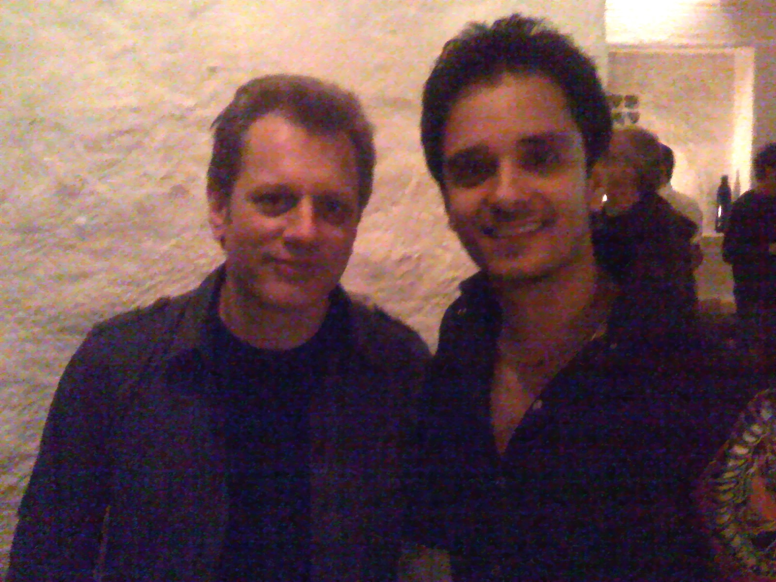 baghavdave